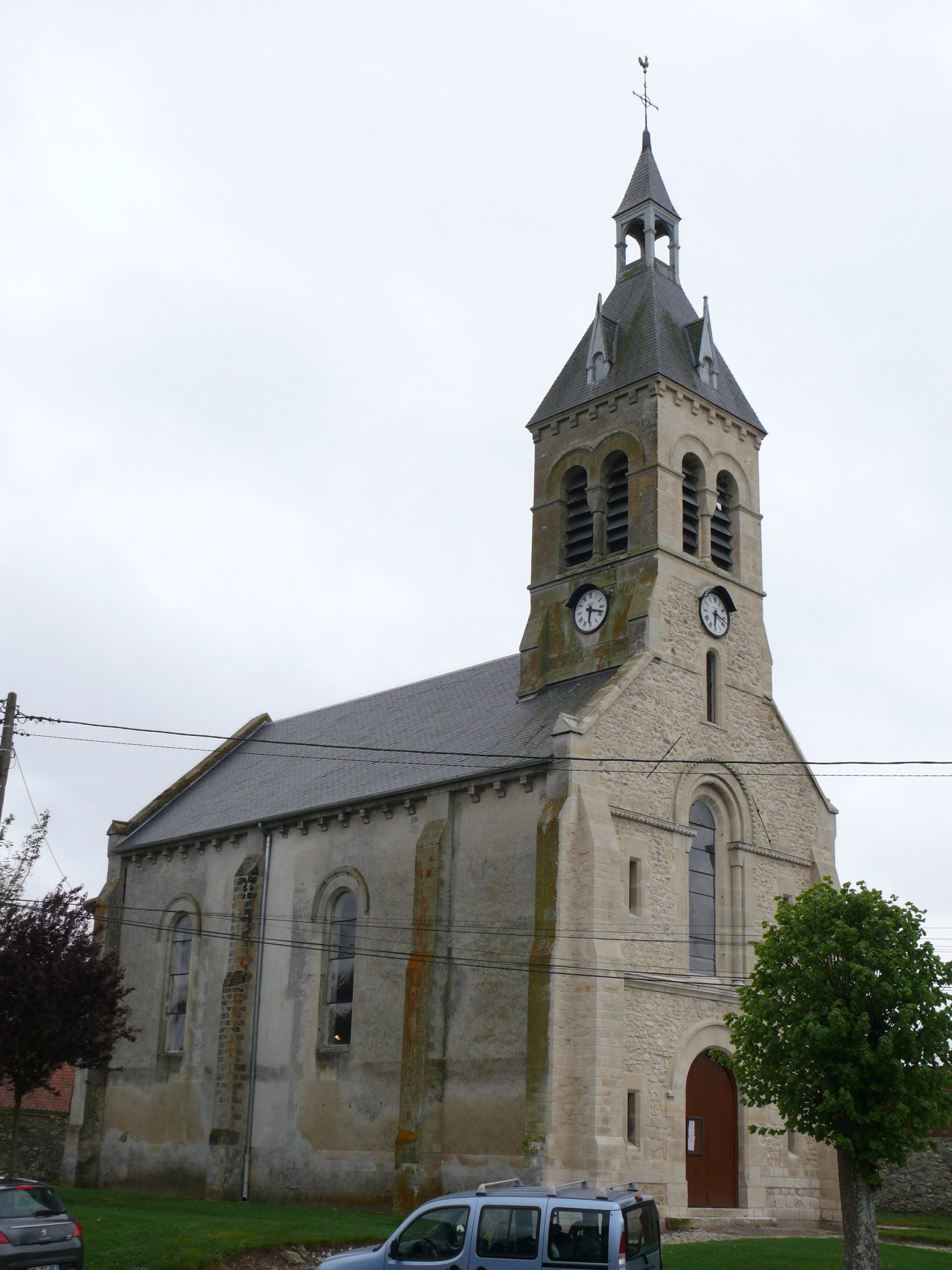 Saint-Martin's church of Chèvreville (Oise, Picardie, France).